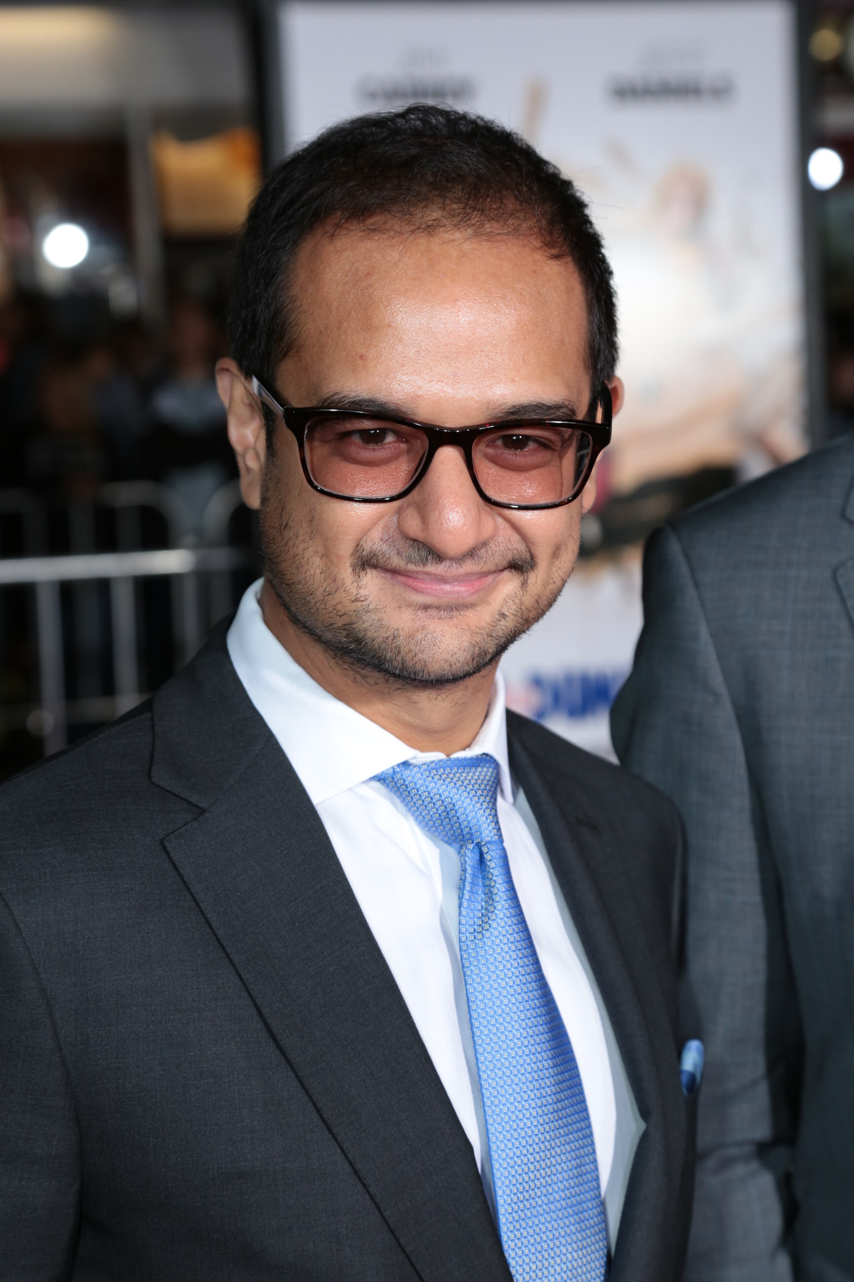 Riza Aziz arrives at the "Dumb and Dumber To" premiere, presented by Universal Pictures at the Bruin Theatre in Westwood, CA on Monday, November 3, 2014.